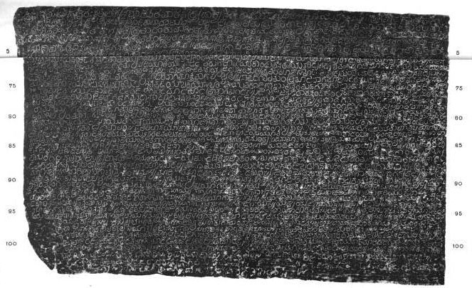 Ablur is a village in the modern Karnataka state, India. The inscription is in old Kannada (Kanarese) script and language and is located on a stone table in the Somanatha temple. Ref source: Epigraphia Indica and Record of the Archæological Survey of India, Volume 5, pp.237-260